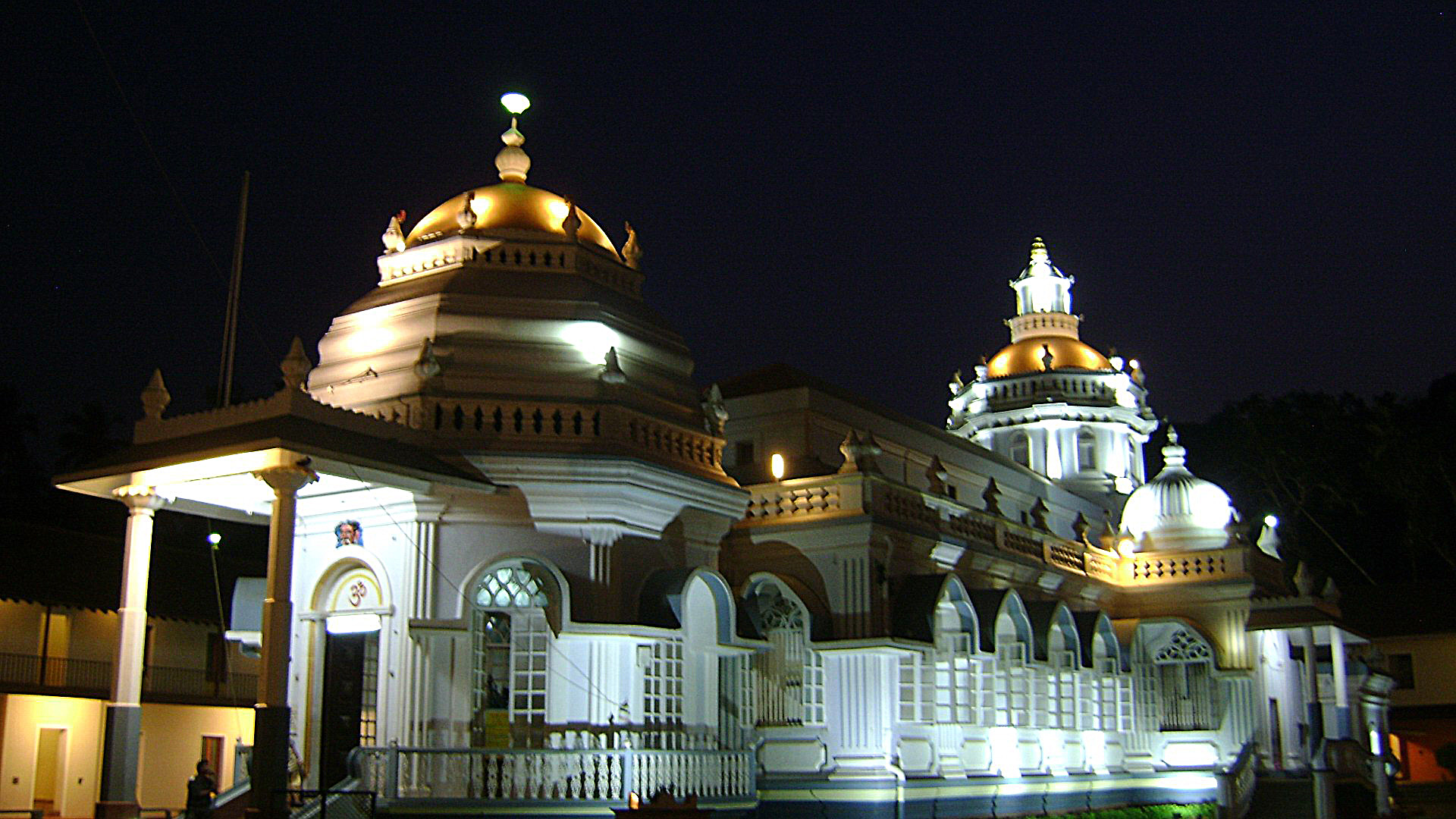 Beautiful view of Shri Mangeshi temple in the night at Mardol, Goa.